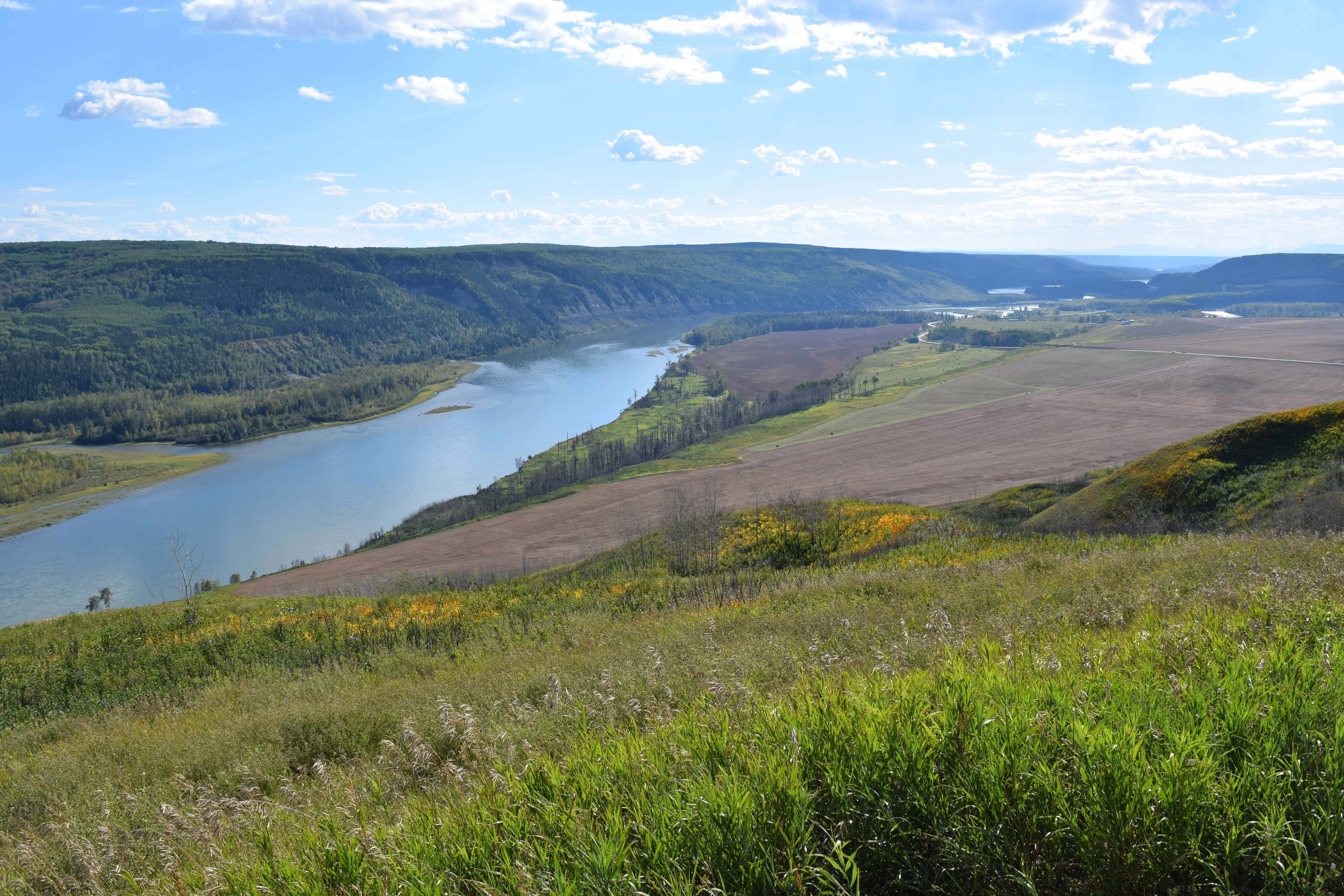 Peace River Valley Site C, area within planned flooding zone, 2017